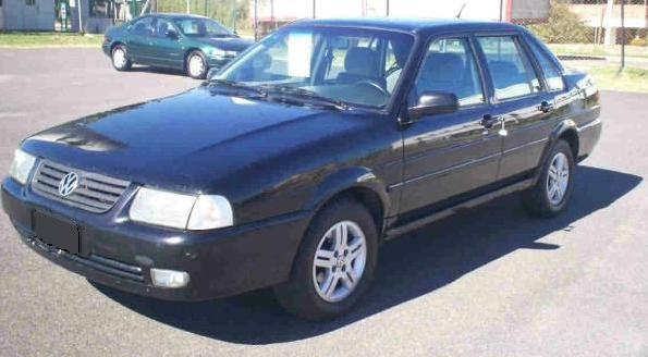 Volkswagen Santana Mk2 built in Brazil.